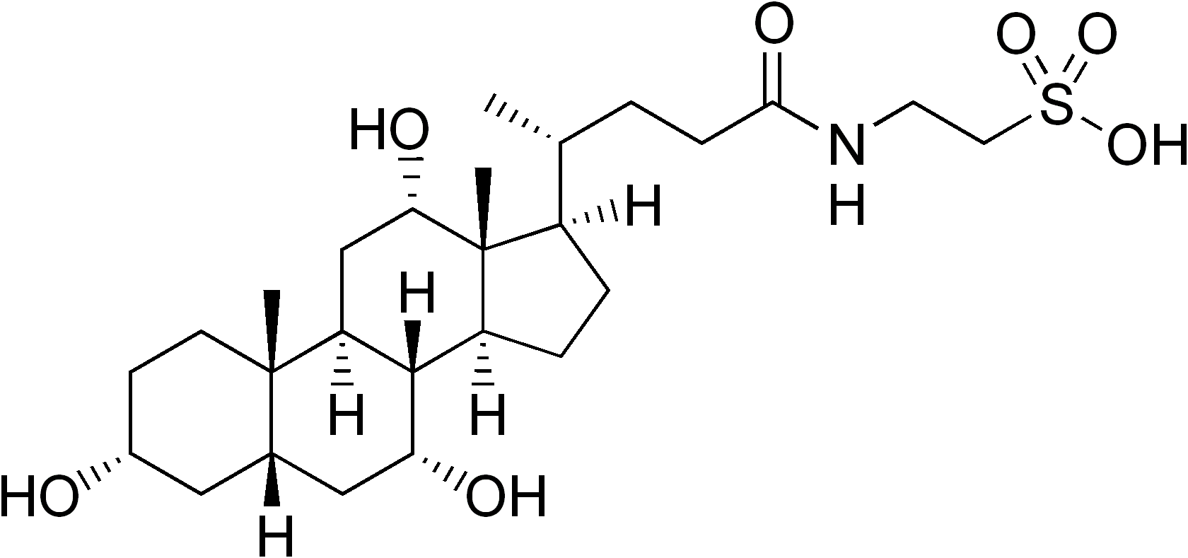 chemical structure of taurocholic acid